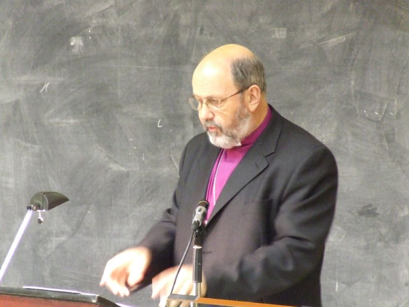 The Rt Revd N T (Tom) Wright delivering the James Gregory Lecture, "Can a scientist believe in the resurrection", St Andrews, Thursday 20 December 2007